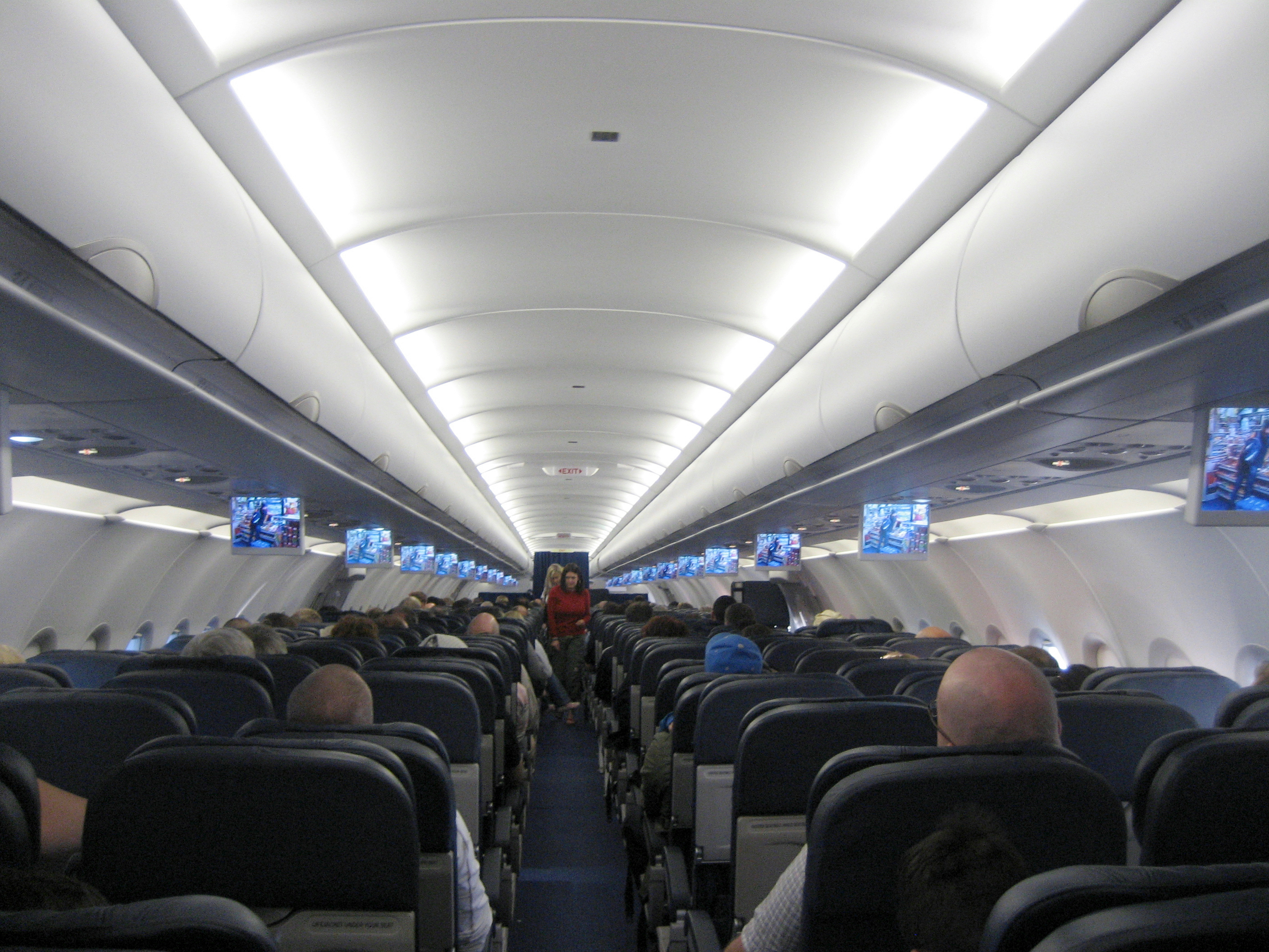 Cabin of GB Airways A321 G-TTIG, operating for British Airways until March 29, 2008. This was the new enhanced cabin now being produced by Airbus, complete with larger overhead lockers, improved lighting, reconfigured PSU and a generally more modern look. Taken on GB Airways' last day of operation for British Airways, after which aircraft was reconfigured for its new owner, Easyjet.